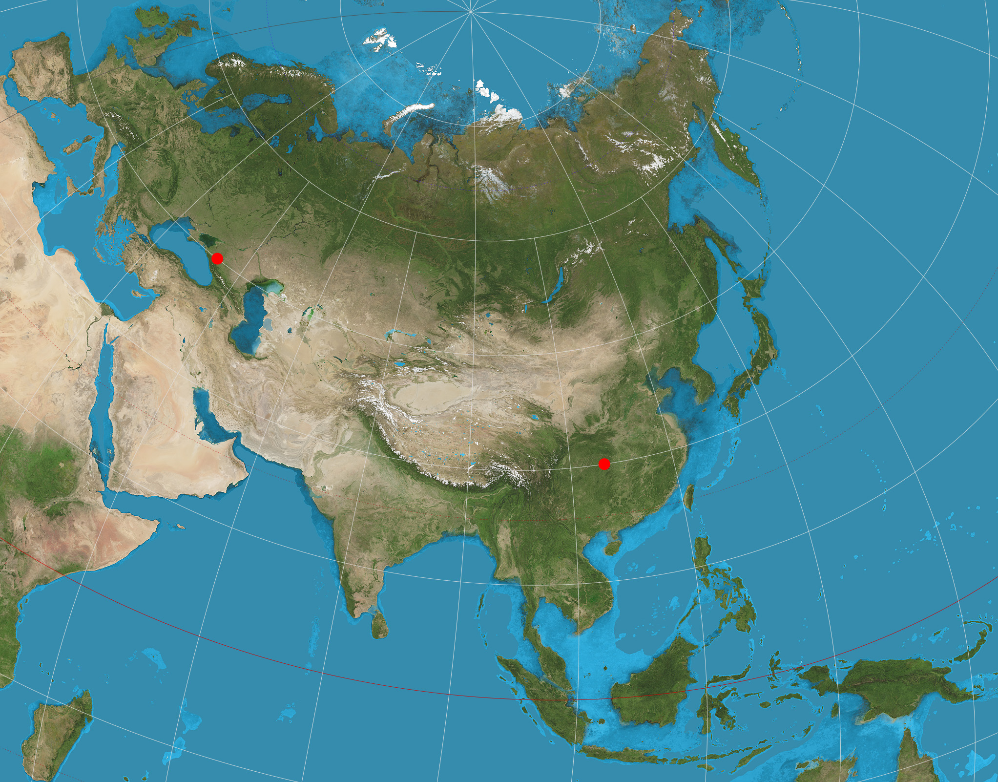 Eurasia on two-point equidistant projection. 15° graticule; two anchor points are (45°N, 40°E), (30°N, 110°E). Imagery is a derivative of NASA’s Blue Marble summer month composite with oceans lightened to enhance legibility and contrast. Image created with the Geocart map projection software.